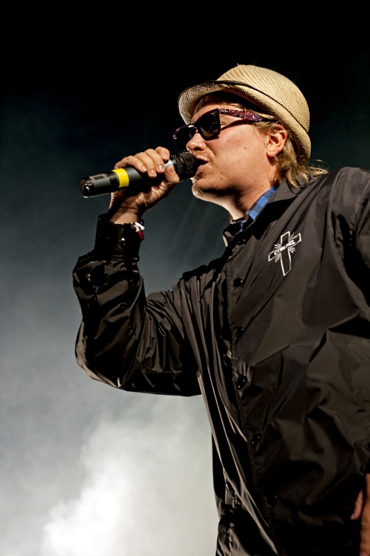 Finnish musician Heikki Kuula on Pipefest festival in 2010.